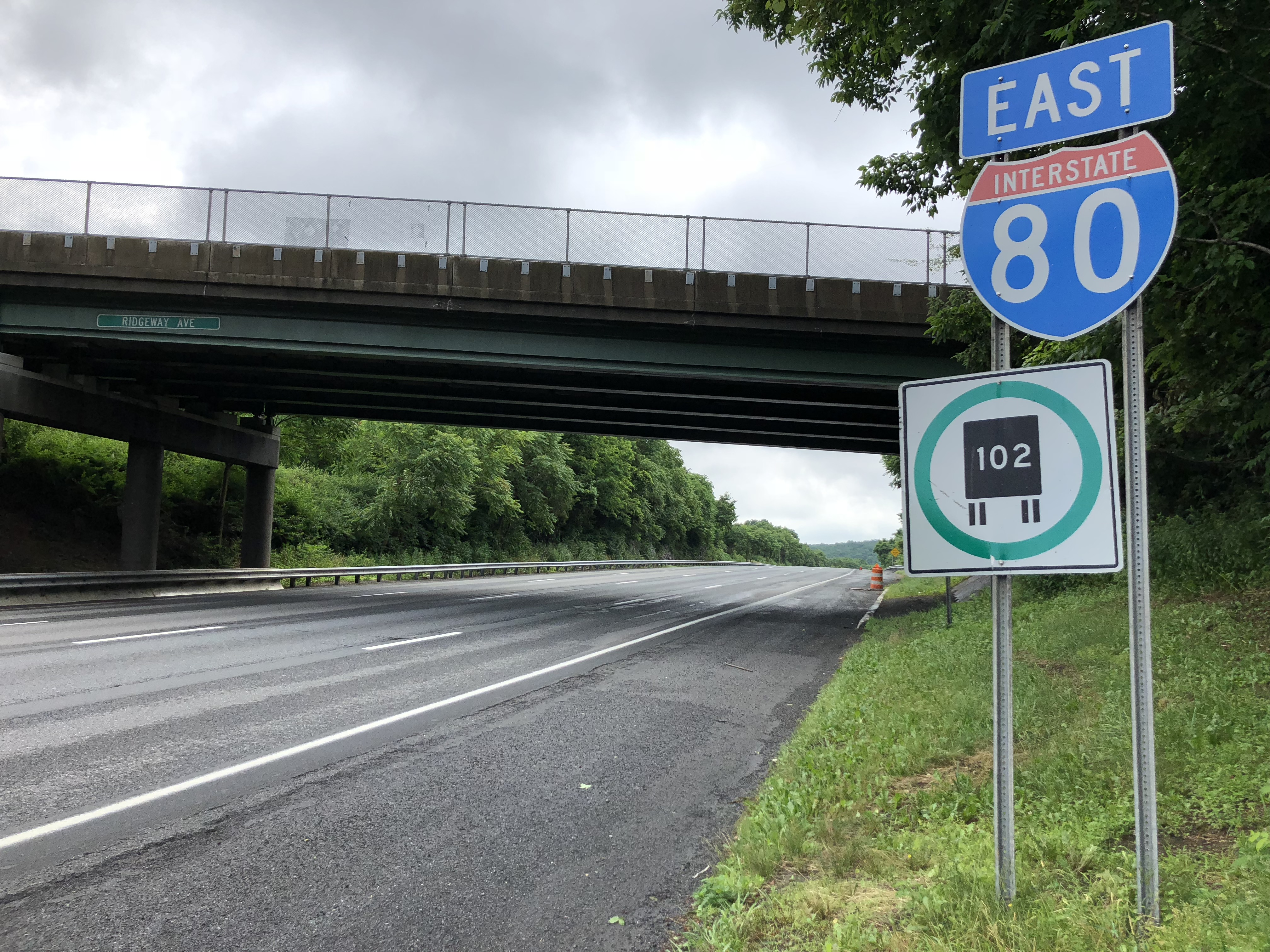 View east along Interstate 80 just east of Exit 12 in Hope Township, Warren County, New Jersey